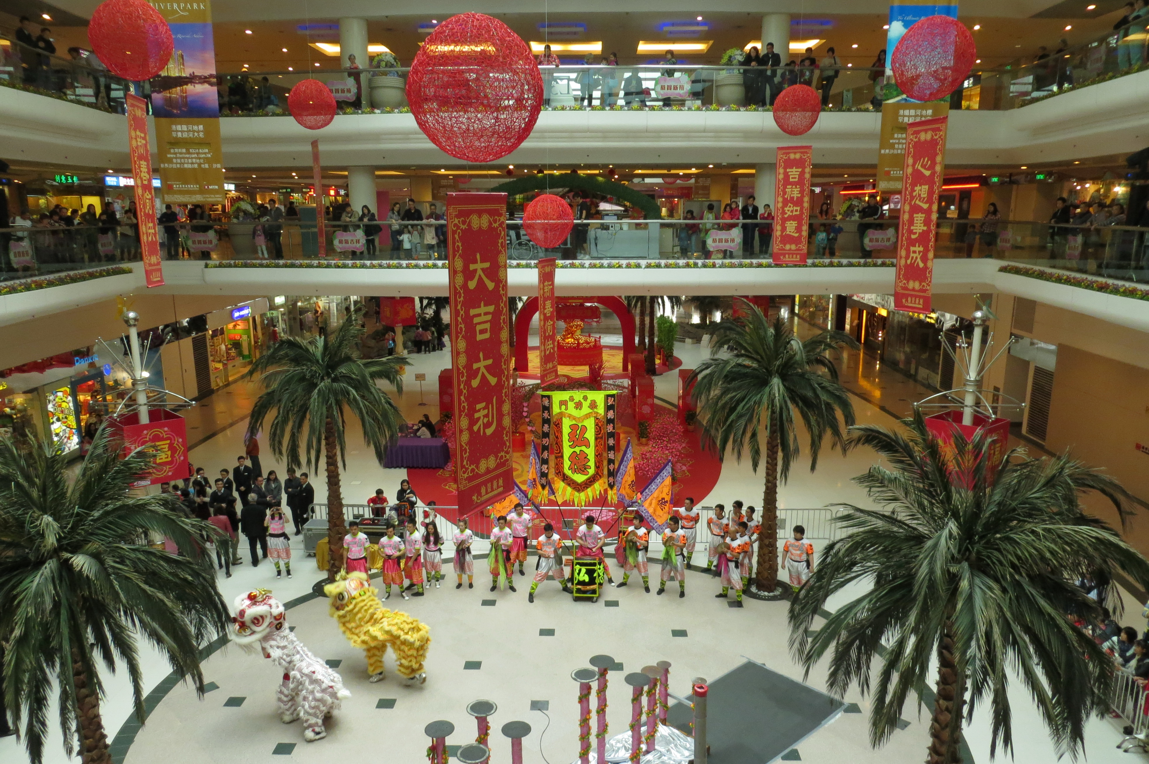 Discovery Park (Main Street Area B), 2013 Chinese New Year, Tsuen Wan, Hong Kong.